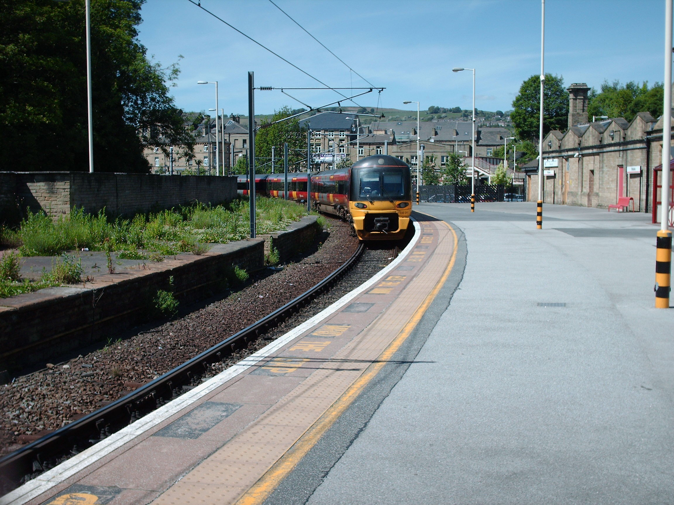 Shipley railway station platform 5. 333011 is departing for Skipton.